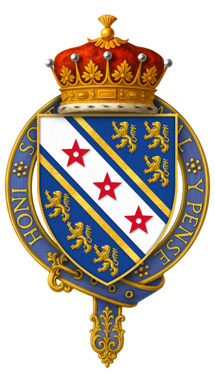 Coat of Arms of Sir William de Bohun, 1st Earl of Northampton, KG “William Bohun Earl of Northumberland… Arms: Azure, on a bend Argent, cottised Or, between six lioncels rampant of the last, three mullets Gules.” BELTZ, George Frederick, Memorials of the Order of the Garter from Its Foundation to the Present Time, London: William Pickering, 1841.